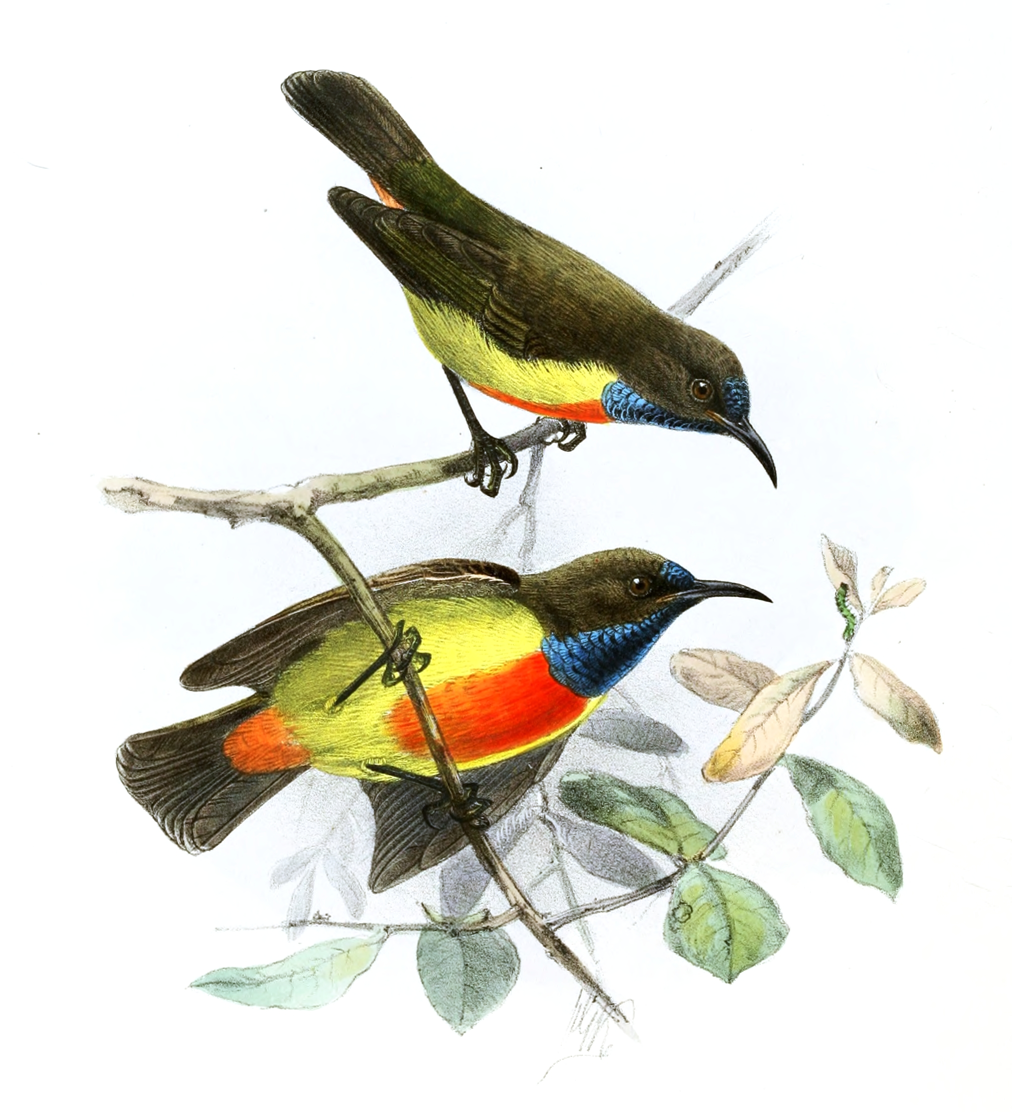 Anthreptes anchietae